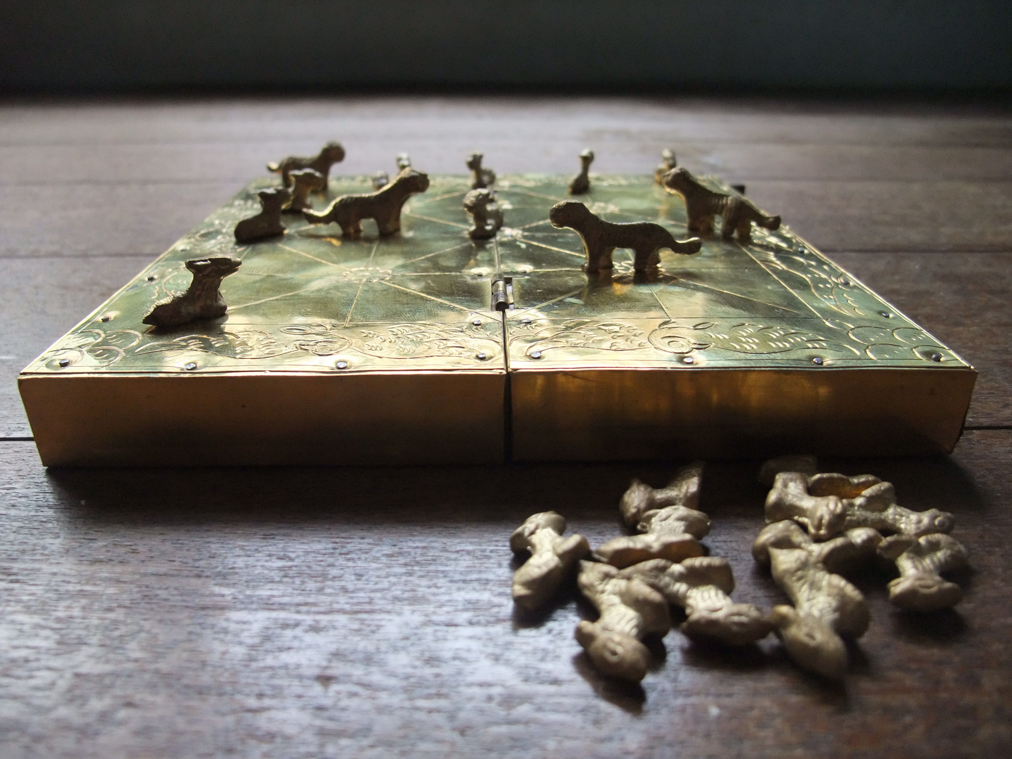 Bagh-Chal